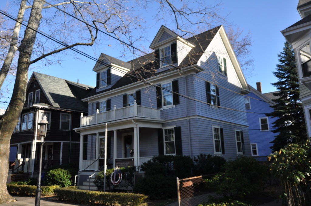 The John F. Kennedy Birthplace in Brookline, Massachusetts